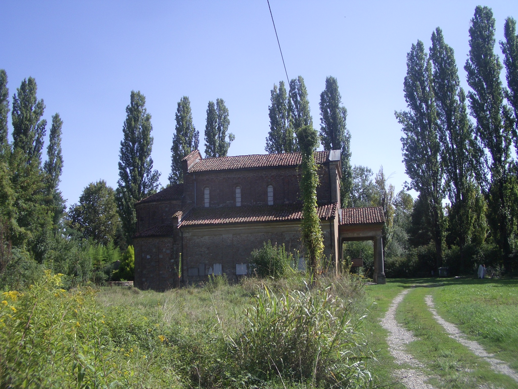 Saint Michael Church, Trino, Vercelli, Italy